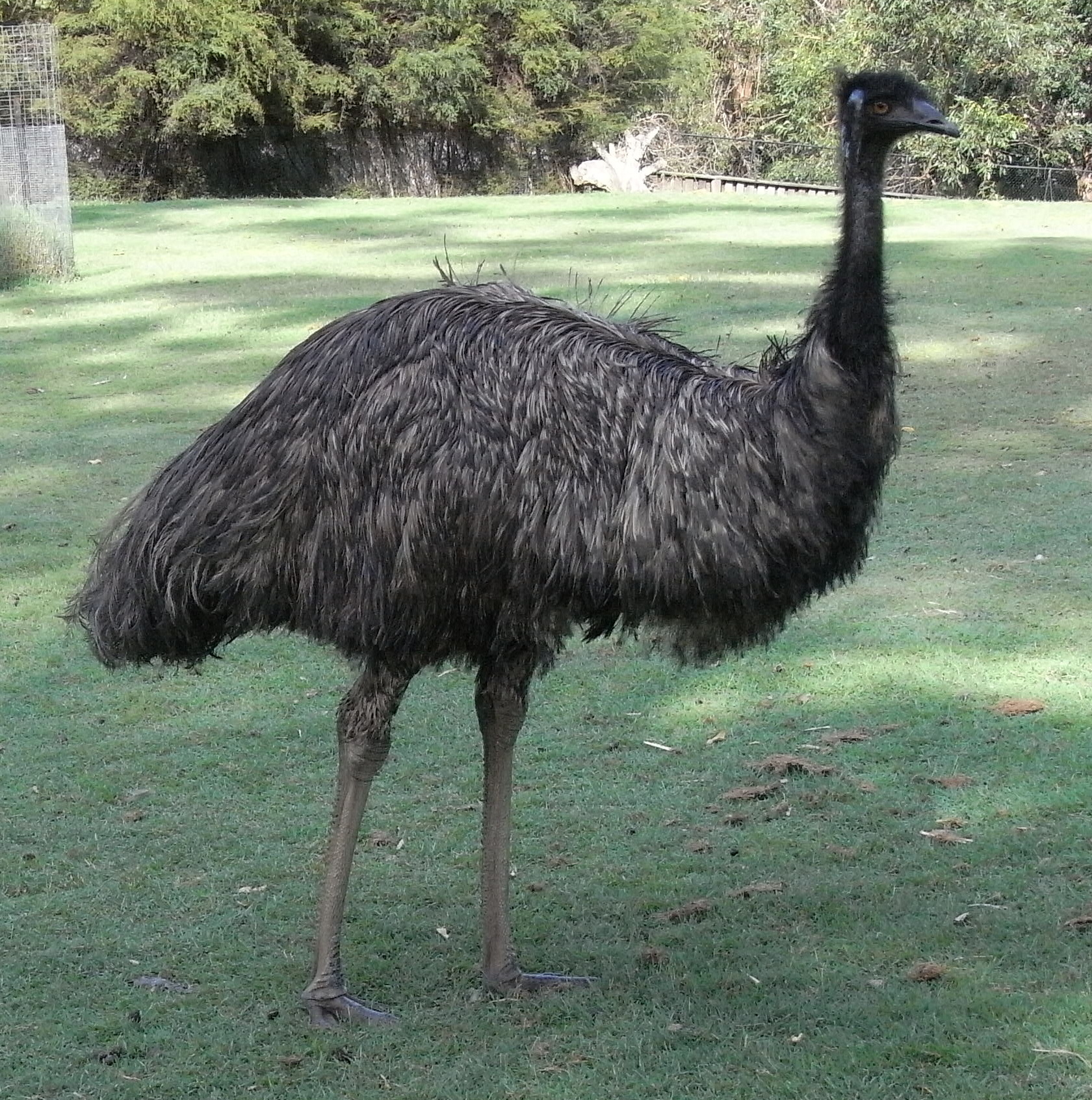 Emu (Dromaius novaehollandiae) at Lone Pine Koala Sanctuary, Brisbane, Australia.